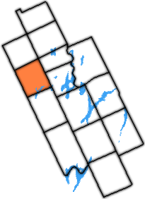 Map of Victoria County (Now city of Kawartha Lakes), with former township of Carden highlighted in orange.